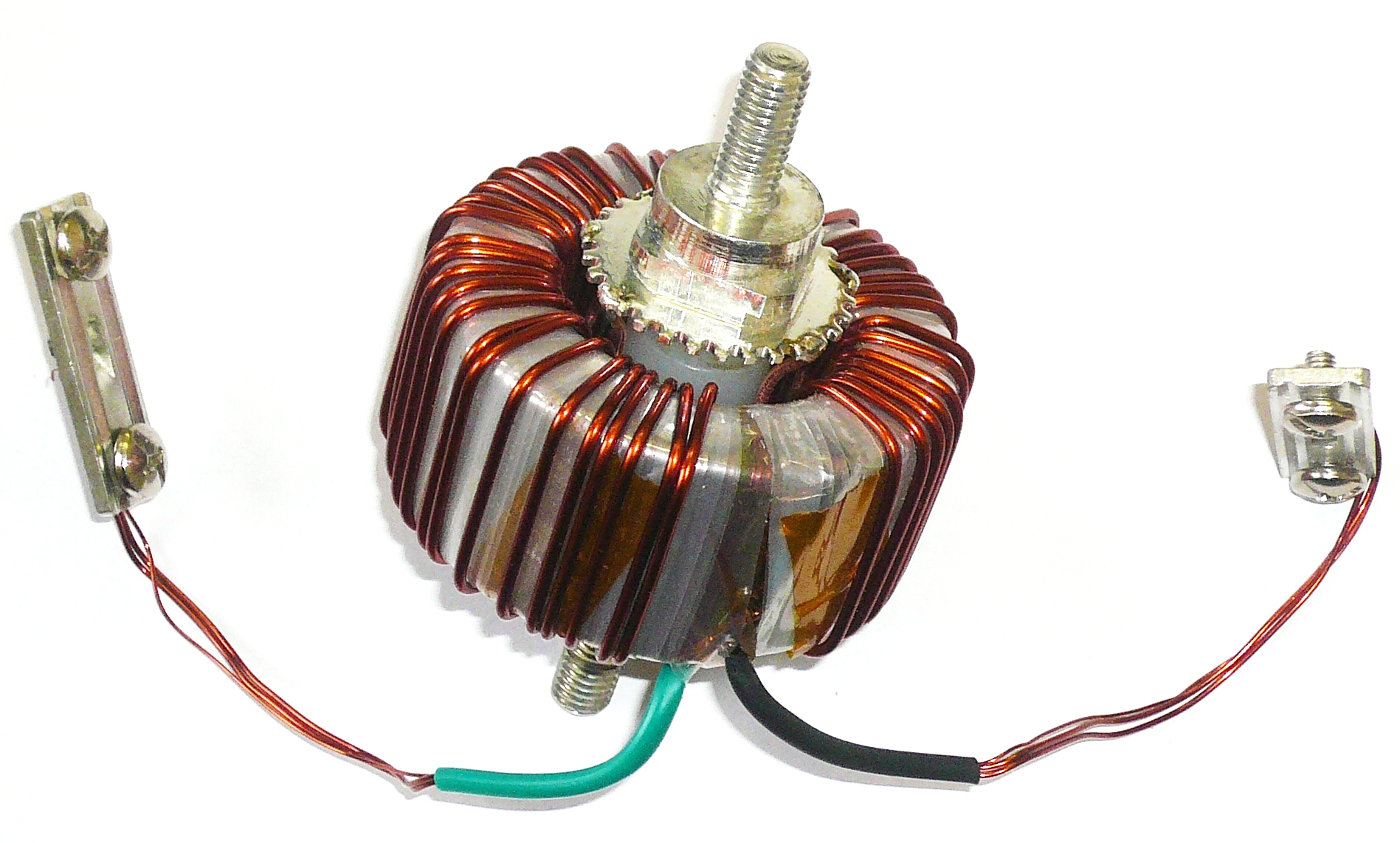 Current transformer